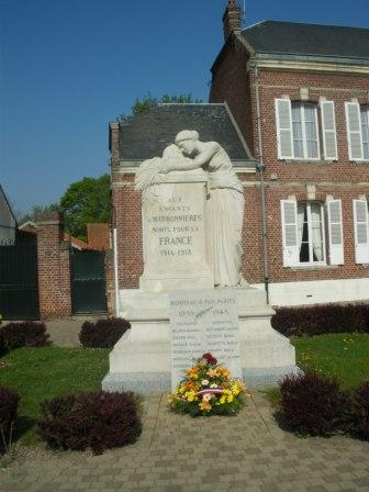 The monument aux morts at Harbonnieres. A work by Georges Roty, the son of Oscar Roty.